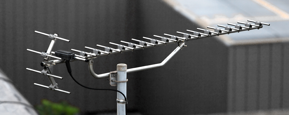 Yagi antenna for UHF HDTV reception. The antenna's main lobe is off the right end of the antenna; it is most sensitive to stations in that direction. Each of the metal crossbars along the antenna support boom is called an element, which acts as a half-wave dipole resonator for the radio waves. The antenna has one driven element which is attached to the TV; it is behind the black box (left). The black box is a preamplifier which increases the power of the TV signal before it is sent to the TV set. The 17 elements to the right of the driven element are called directors; they reinforce the signal. The 4 elements on the V shaped boom (left) are called a "corner reflector"; they serve to reflect the signal back toward the driven element. Yagi HDTV antennas use a corner reflector to increase the bandwidth of the antenna. The rest of the antenna increases the gain at higher channels, while the corner reflector increases the gain at lower channels.